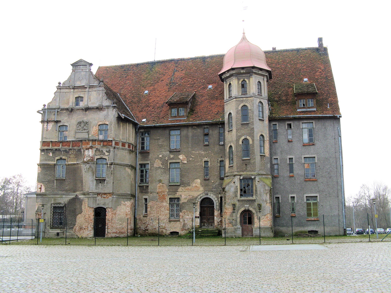 Castle in Bützow, district Güstrow, Mecklenburg-Vorpommern, Germany